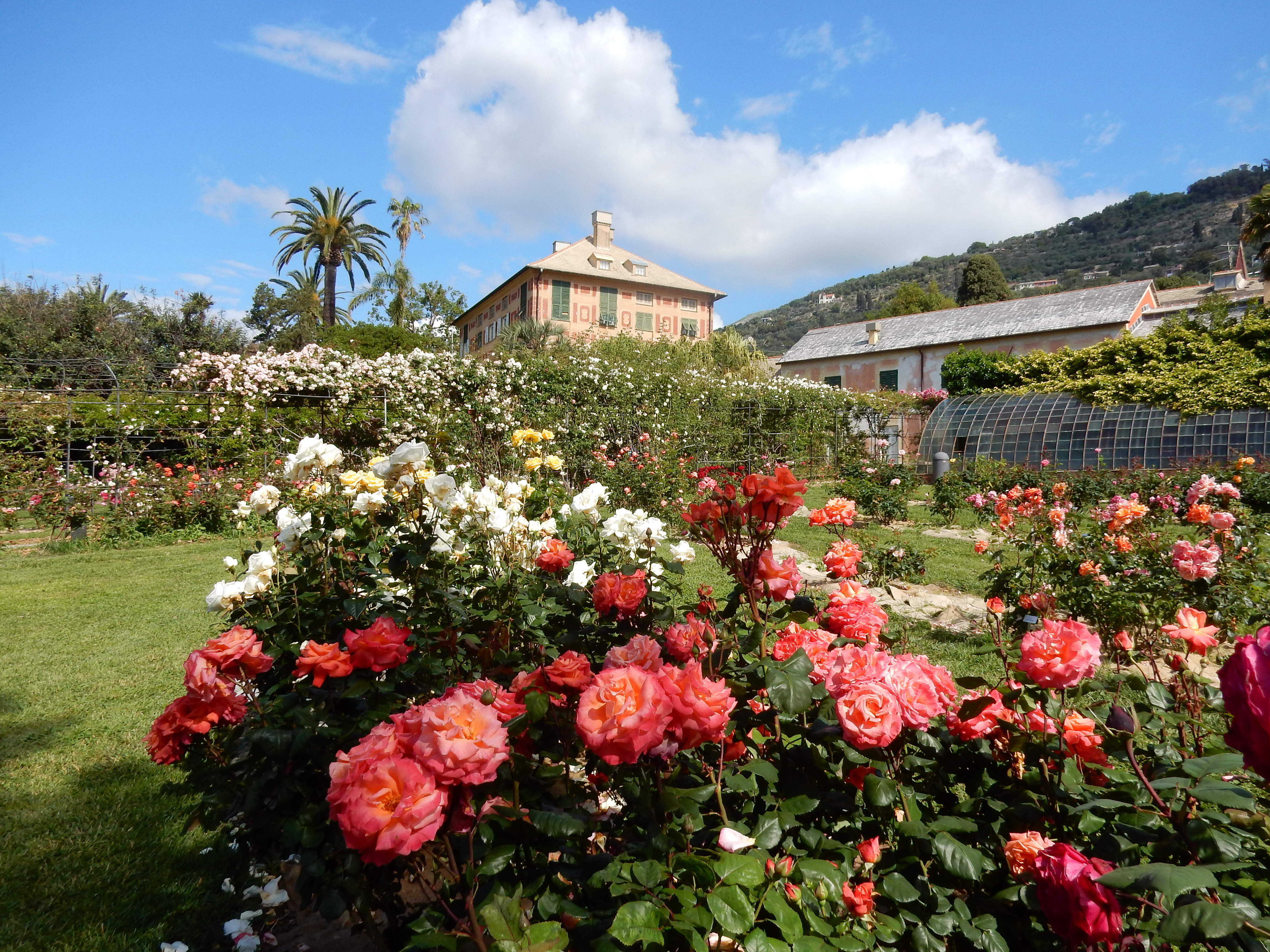 This is a photo of a monument which is part of cultural heritage of Italy.